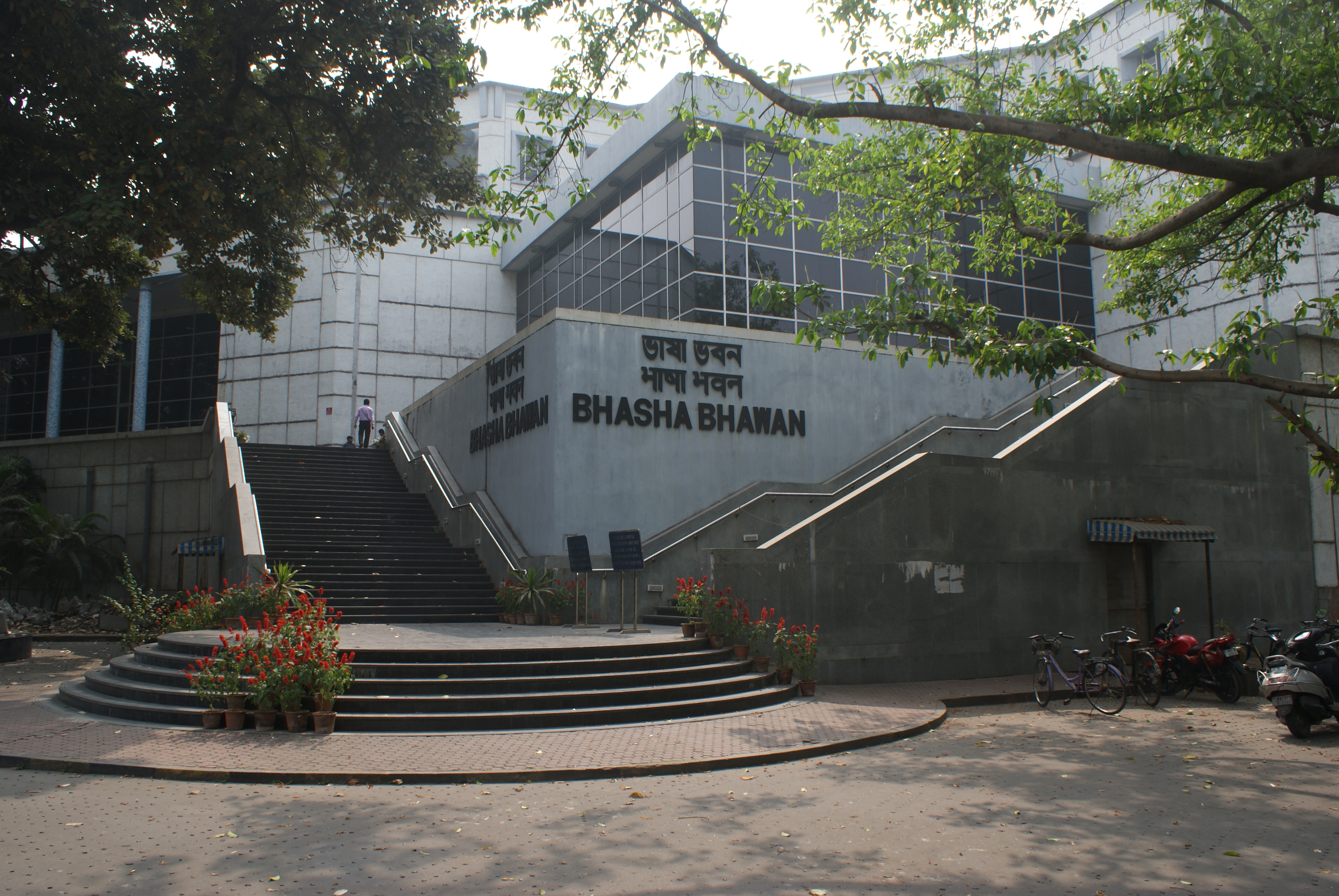 Kolkata, National Library of India, Bhasha Bhawan